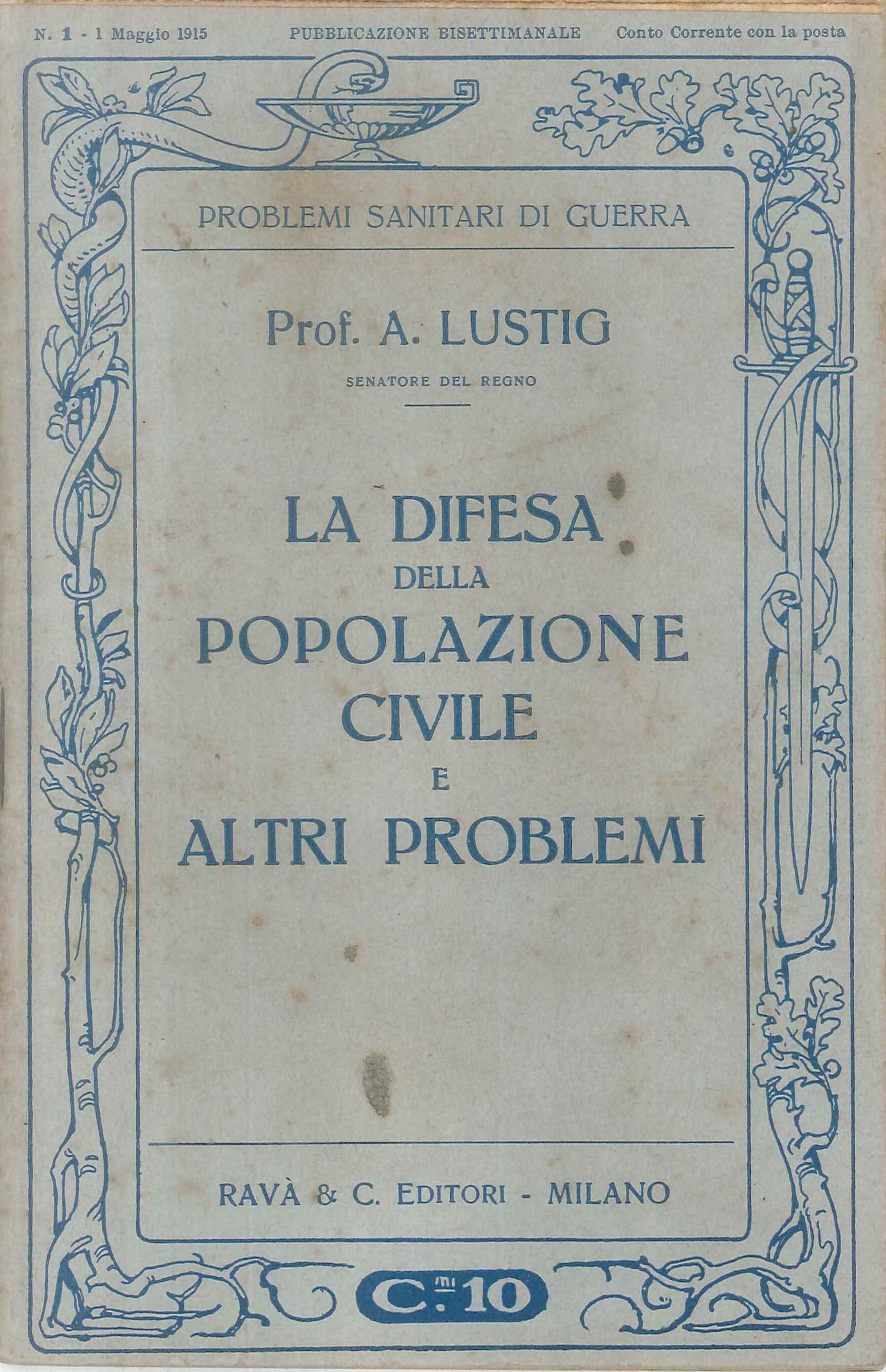 cover of a 1915 publication